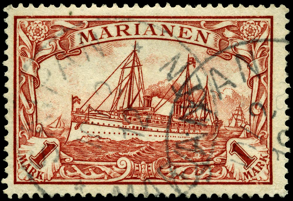 Mariana Islands 1-mark "Yacht" stamp of 1901